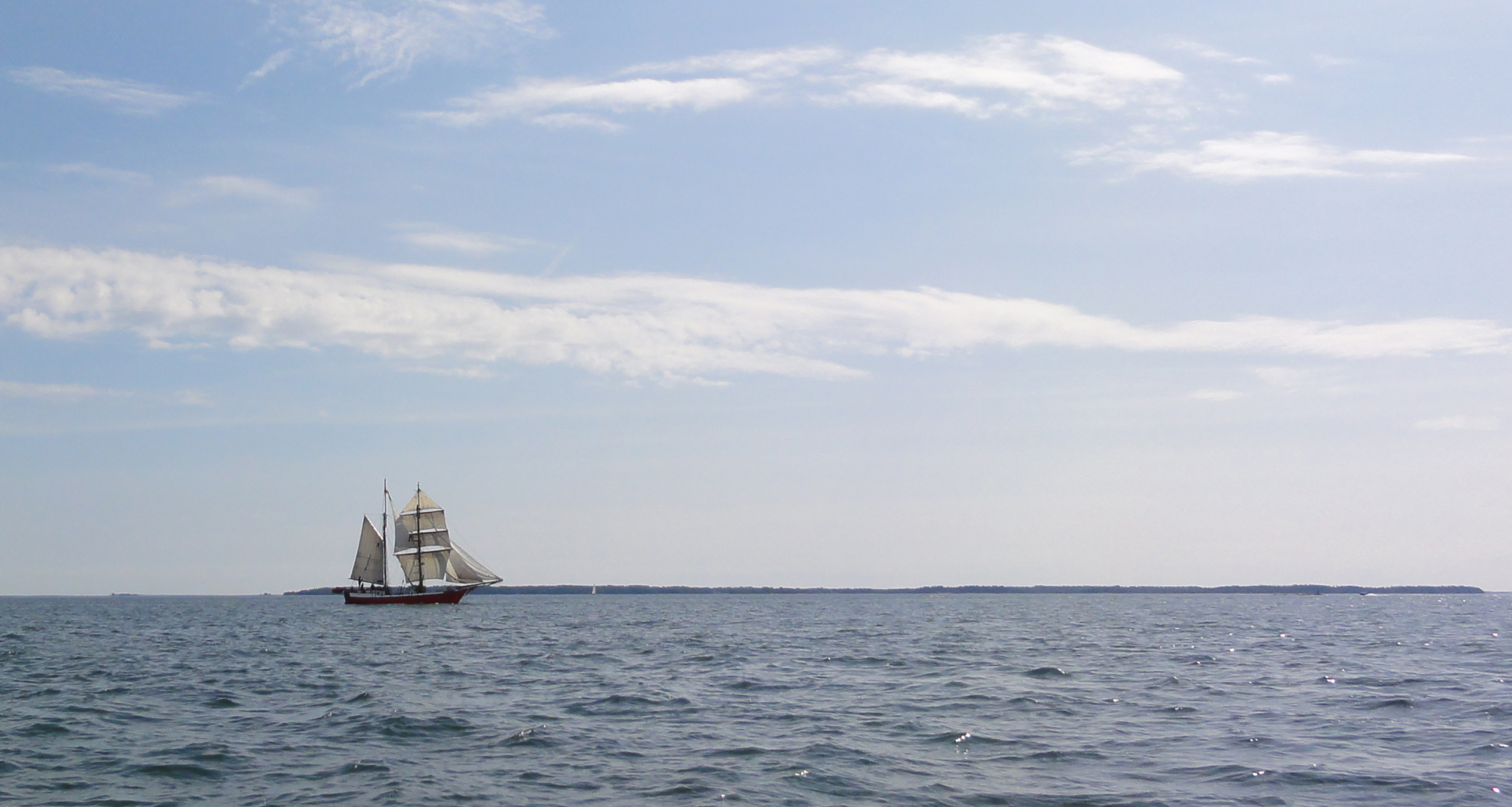 Gräsköfjärden, narrow coastal inlet in Stockholm archipelago through Kråkhålet at Furusund waterway